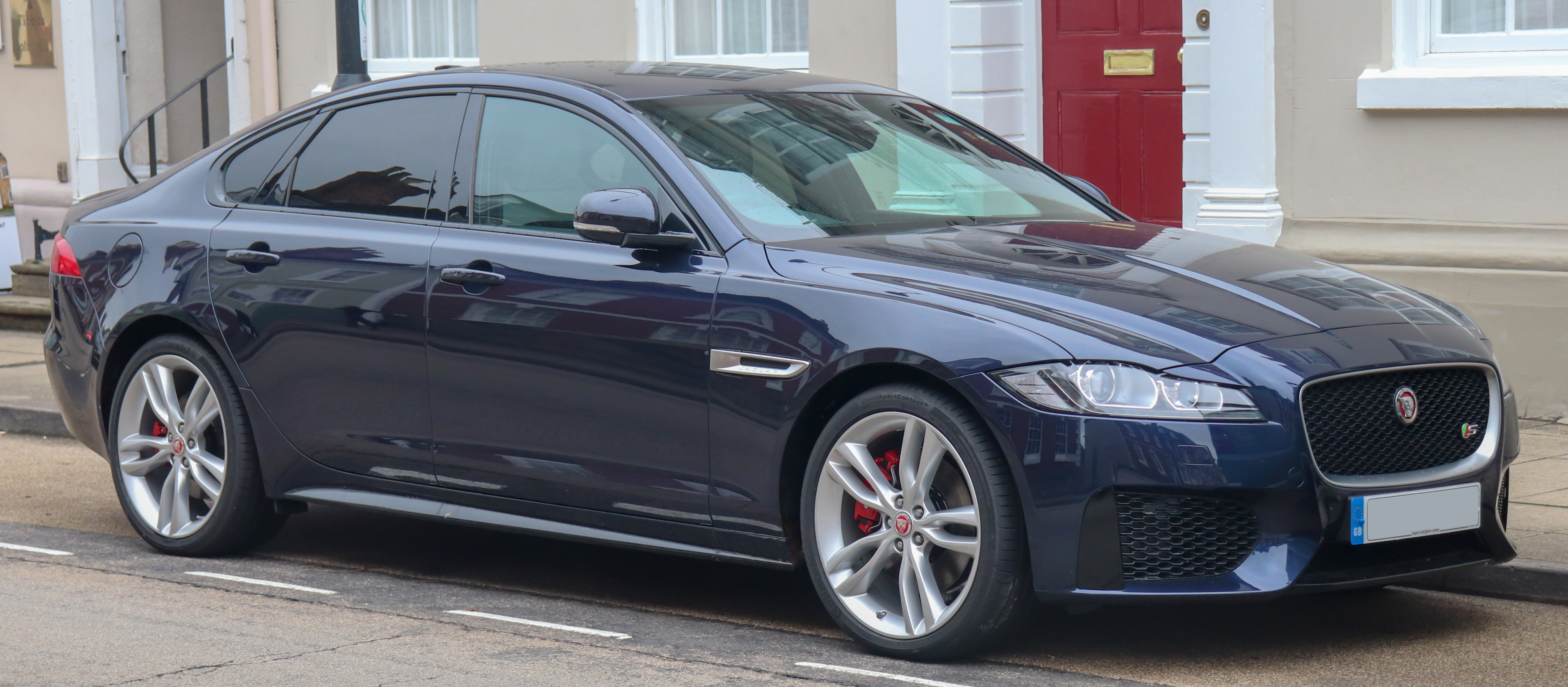 2018 Jaguar XF V6 S Diesel Automatic 3.0 Front Taken in Warwick